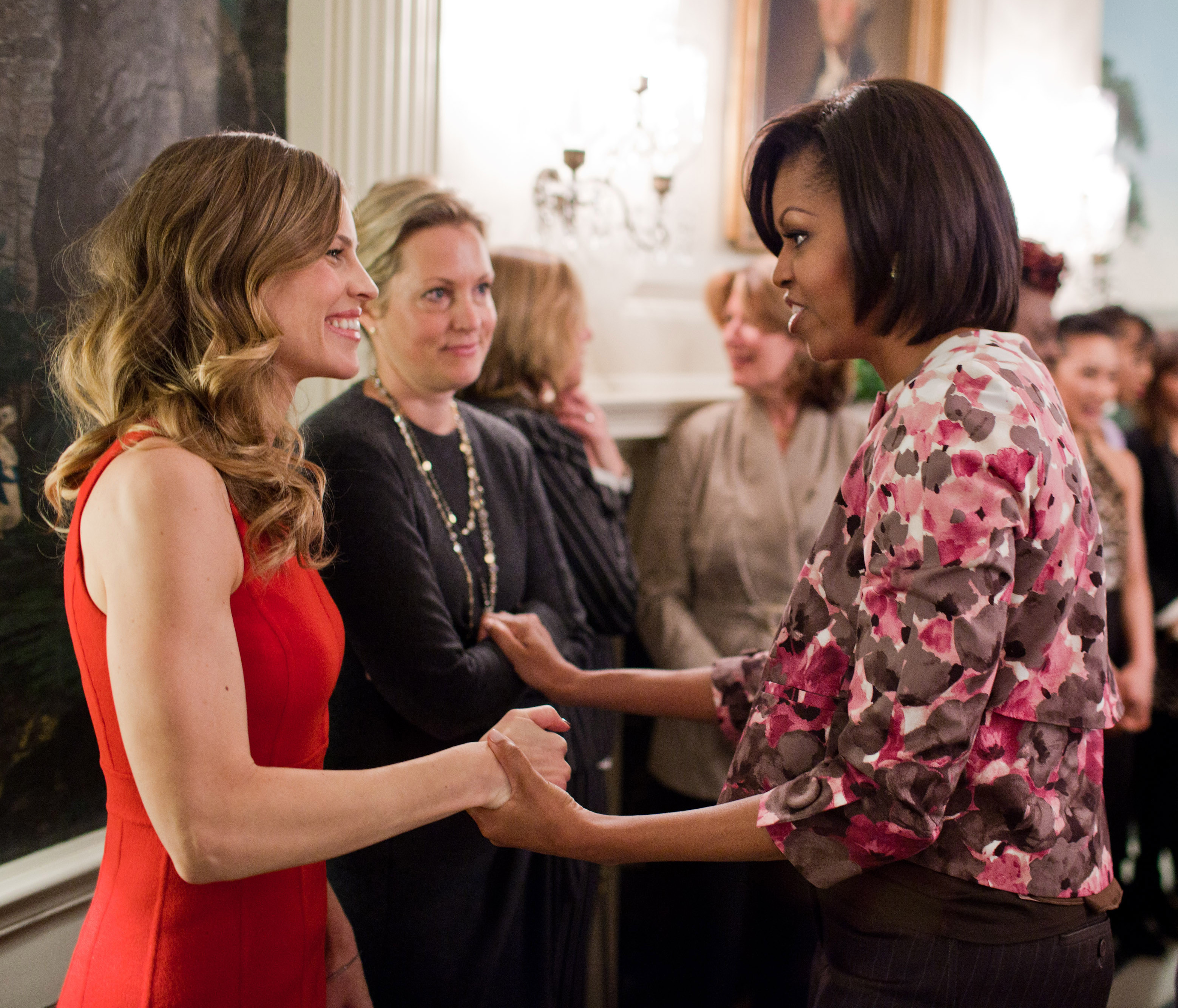 First Lady Michelle Obama greets actress Hilary Swank and other guest mentors in the Diplomatic Reception Room of the White House during an event celebrating Women's History Month, March 30, 2011. Mrs. Obama brought the distinguished group of volunteers together to visit schools and share their experiences with students across the Washington, D.C. metro area.